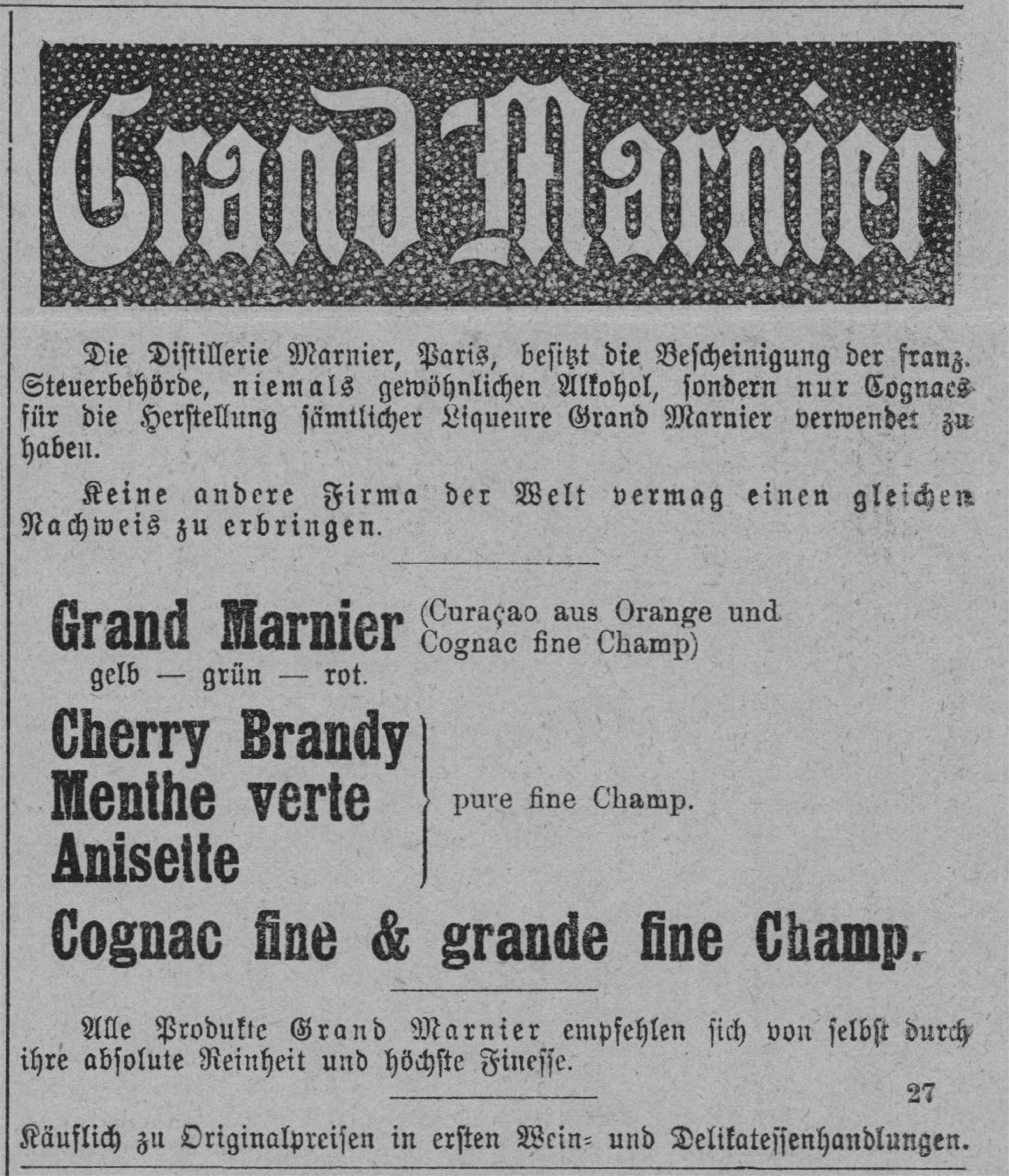 Scan from the Dresdner Journal, 1906